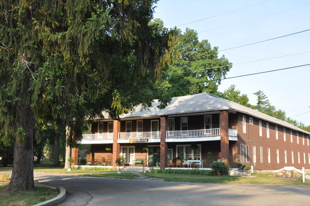 A communal housing building in the Chesterfield Spiritualist Camp of Chesterfield, Indiana.